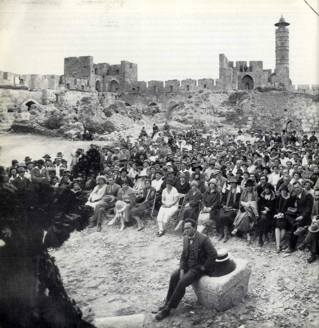 Benefit concert by Professor Shore at the tower of David, for the Jewish national found, june 16, 1926. the Jewish national found photographic archive.